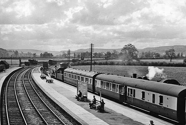 Moat Lane Junction Station, with train. View westward, towards Machynlleth and the Coast (ahead), and Llanidloes, Builth and Brecon (Mid-Wales line) (left). Two LMS Ivatt 2MT 2-6-0s can be seen, one of them on the Mid-Wales train. The station was closed on 31/12/62, when the Mid-Wales line was closed (apart from a goods service to Llanidloes until 2/10/67). (A lovely view in the upper reaches of the Severn Valley, with perhaps its source, Plynlimon, on the horizon).